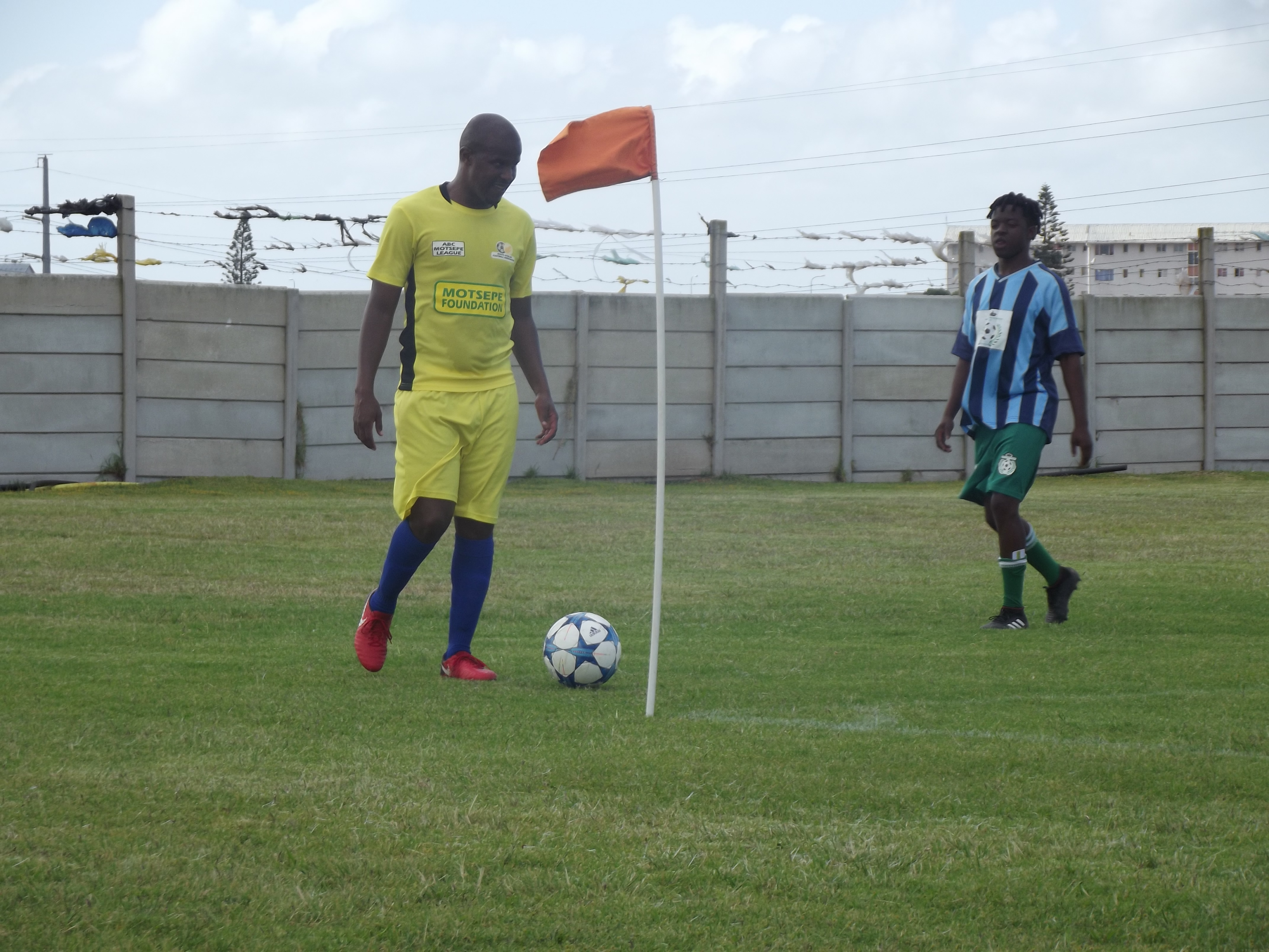 Elrio van Heerden of PE Stars FC